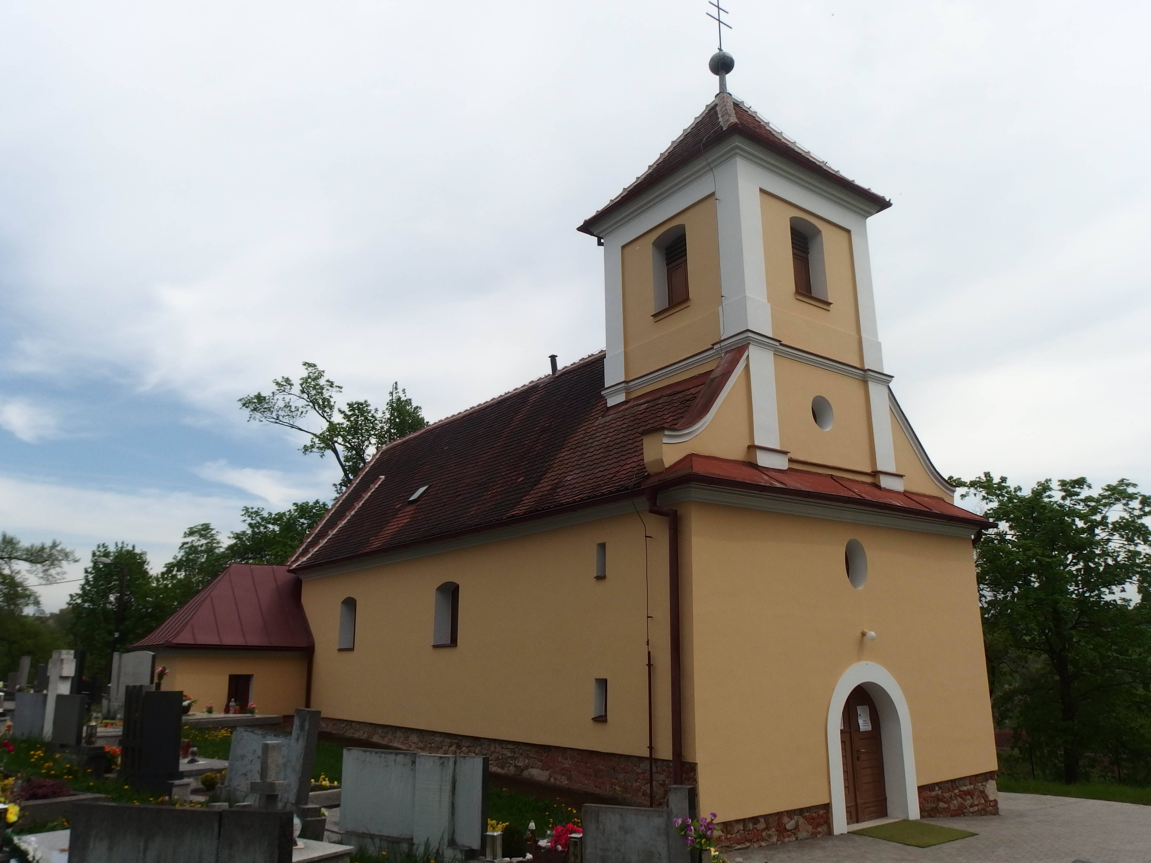 Rudice, Uherské Hradiště District, Czech Republic. Church of Saint Wenceslaus.